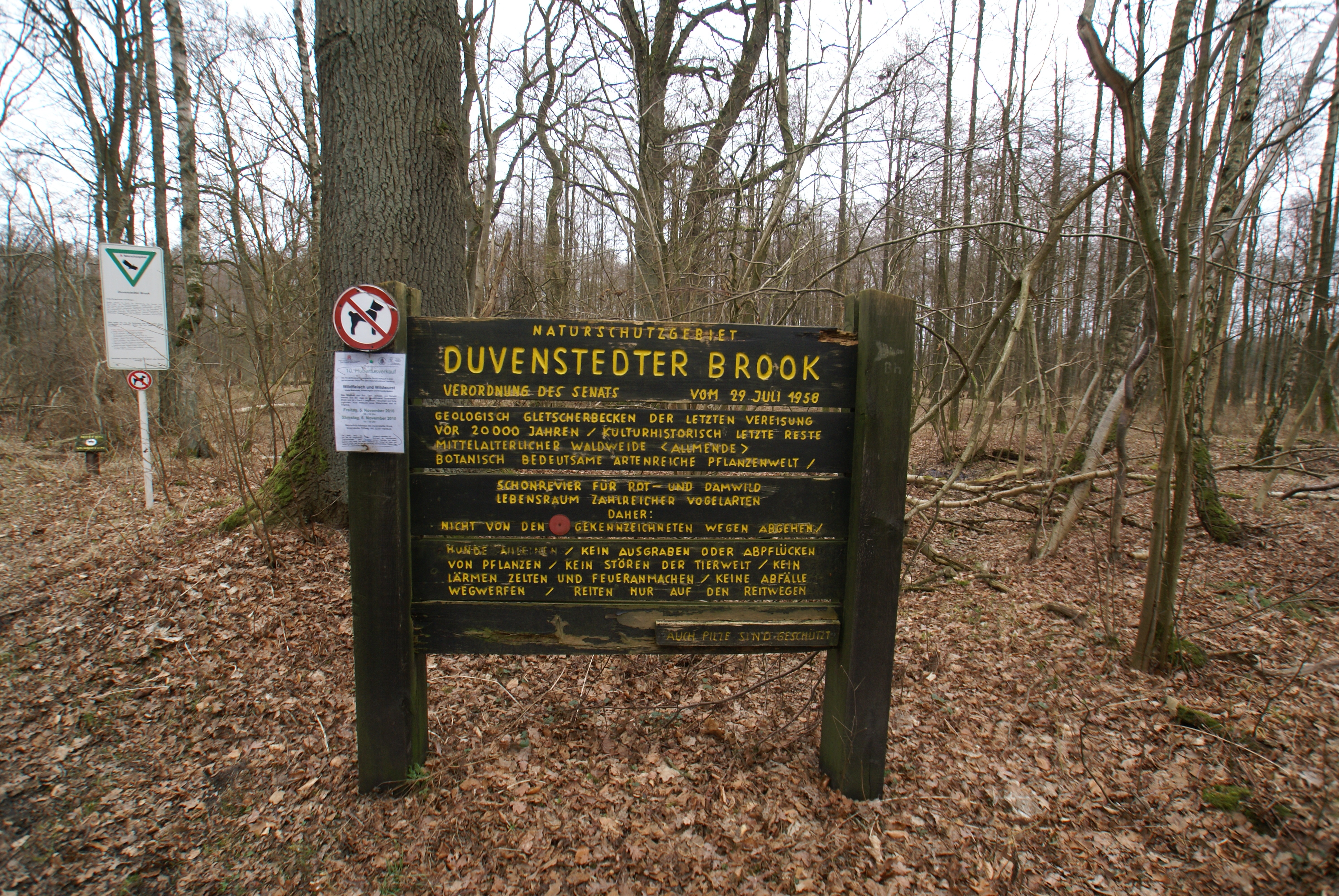 Hamburg (Wohldorf-Ohlstedt), Germany: Information table at the entrance of the Duvenstedter Brook